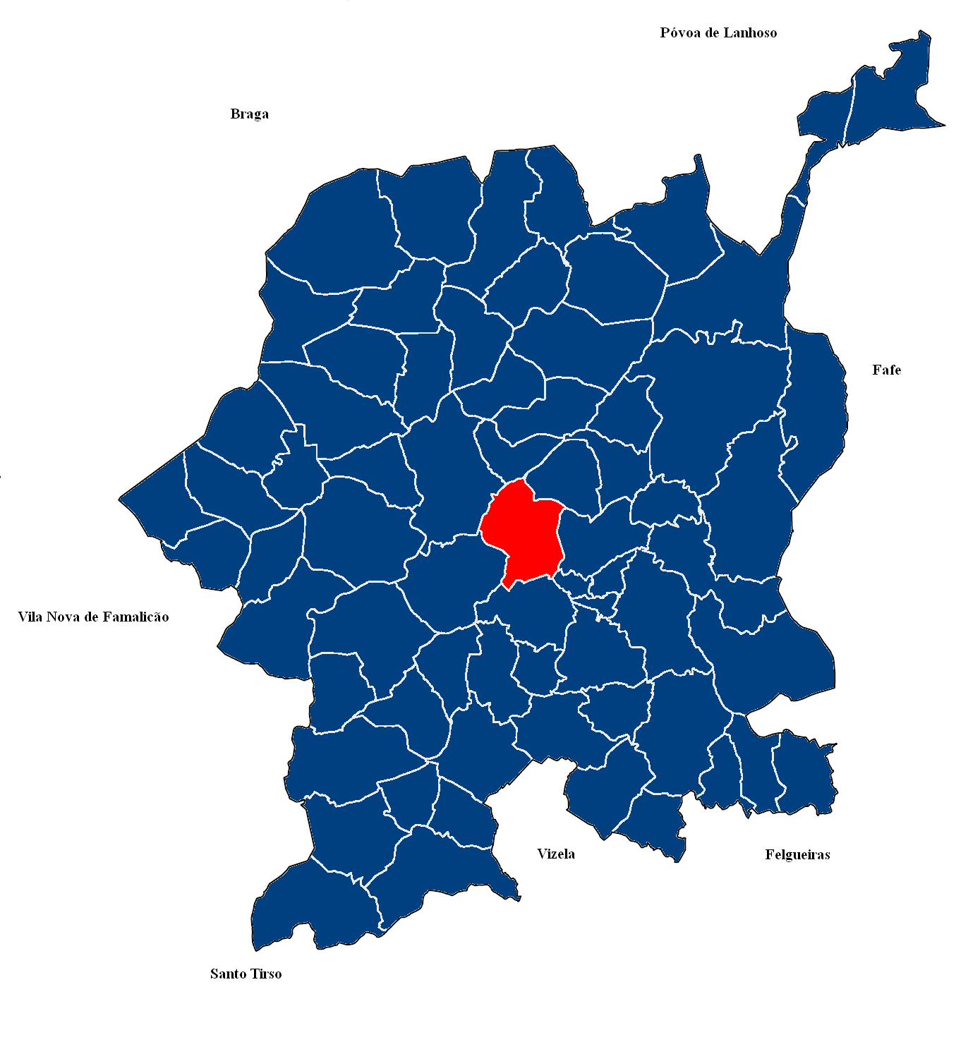 Map of Fermentões parish, Guimarães Municipality, Portugal